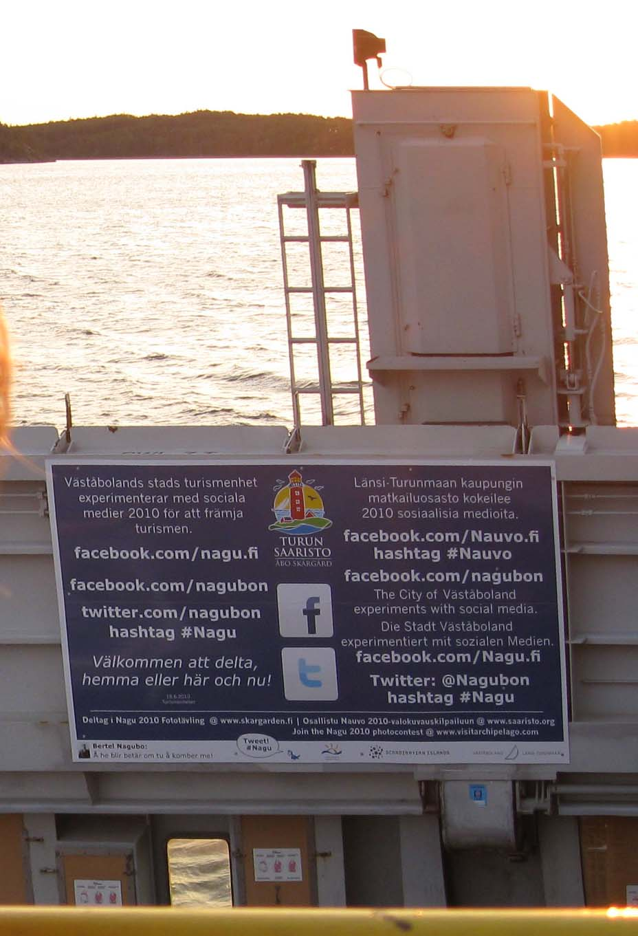 Campaign for social media activity around Nagu